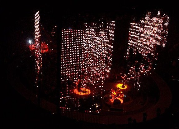 U2's Vertigo Tour, Wachovia Center, Philadelphia, 22 May 2005, "City of Blinding Lights".